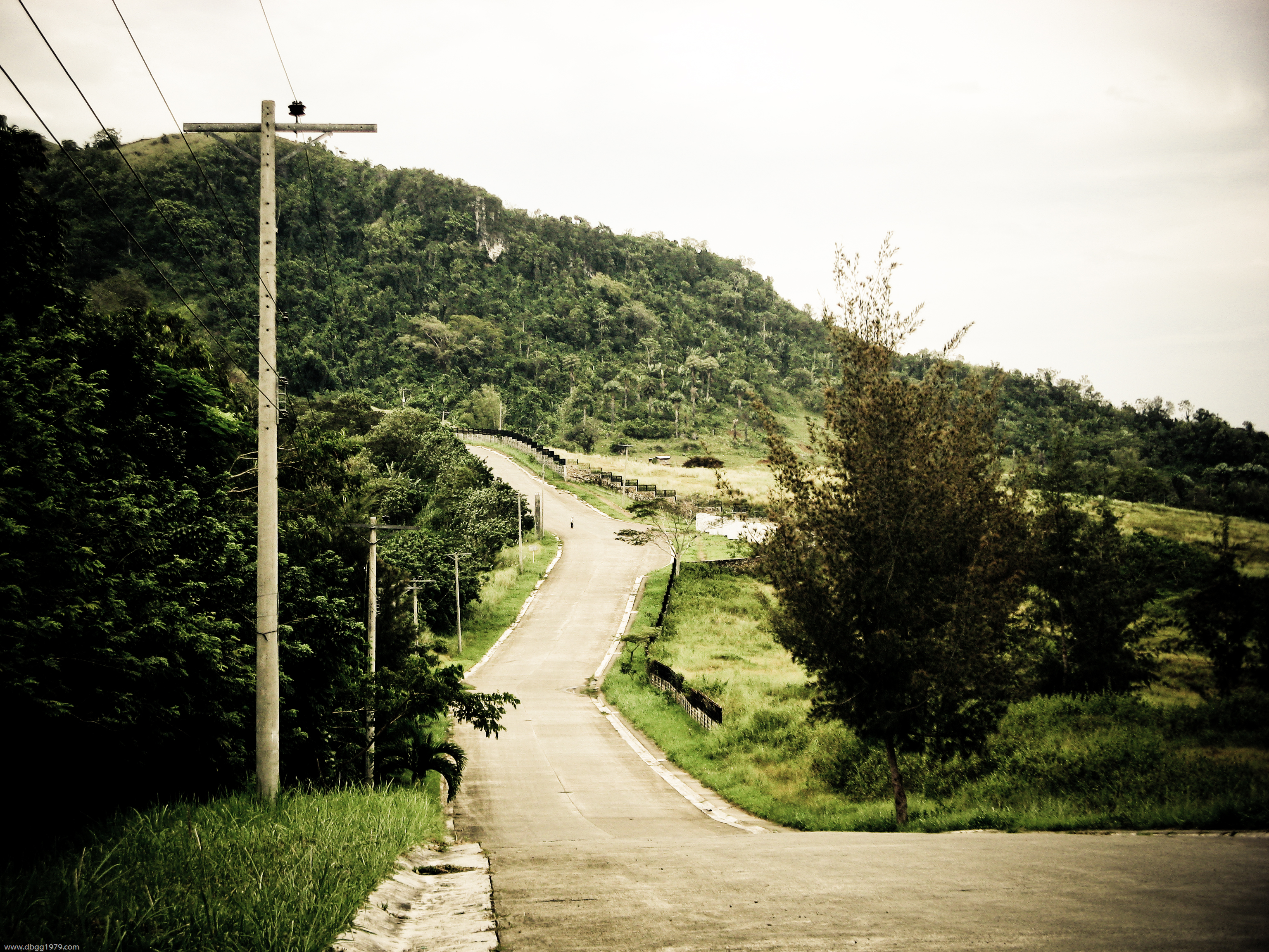 Kan-irag Nature Park, Ayala Heights, Cebu, Philippines